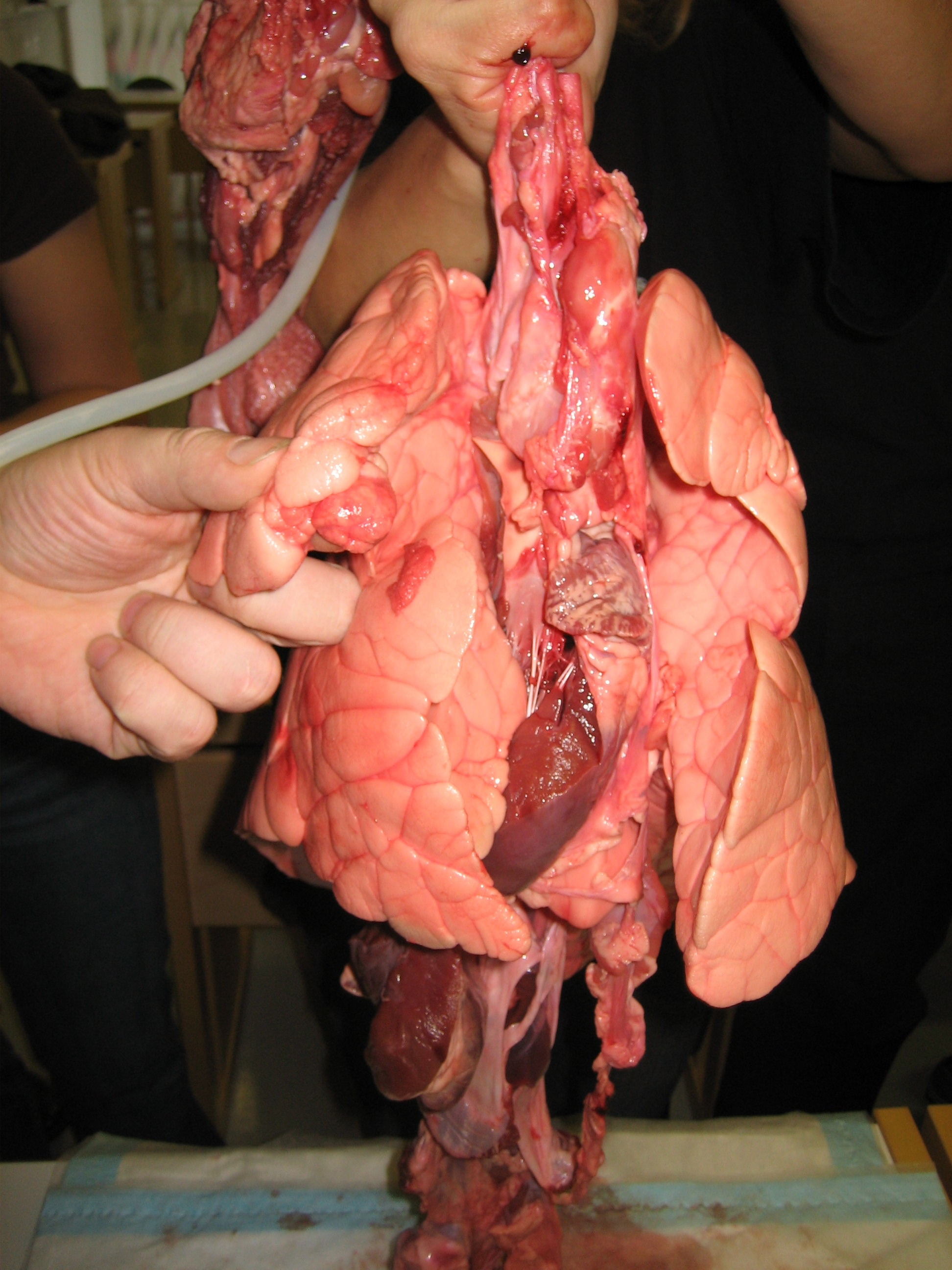 Lungs (pulmonae) of a pig (Sus scrofa domesticus)